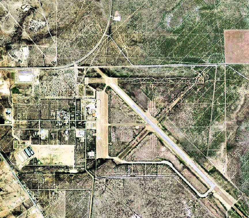 USGS digital orthophoto of Eagle Pass Air Force Station in Texas